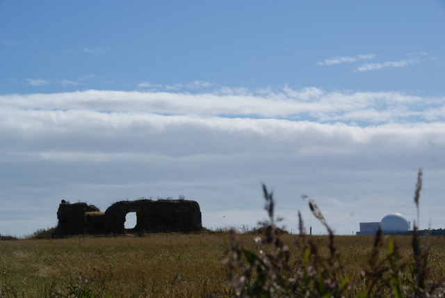 The ruined chapel It's actually not that impressive a ruin. Sizewell B looms behind to give contrast from a different era.